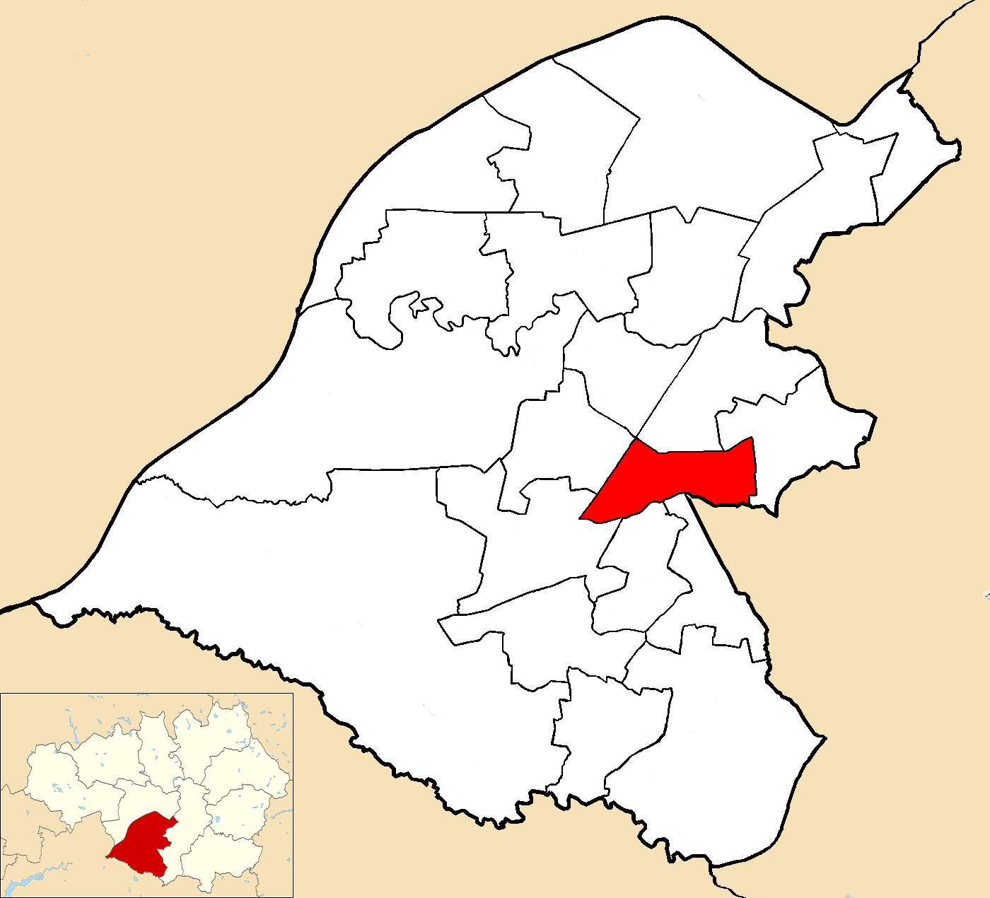 Map showing location of Brooklands Ward within Trafford Metropolitan Borough.